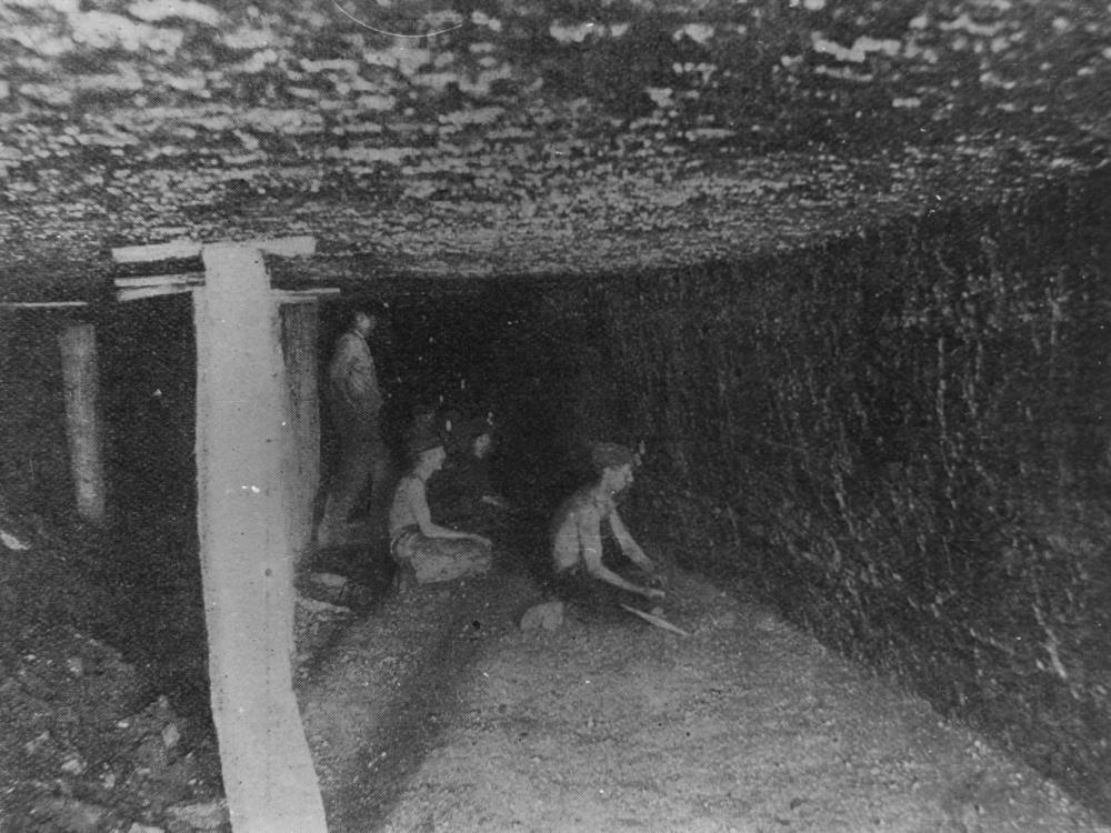 Miners at work underground at the Rhondda Colliery, Ipswich, 1905